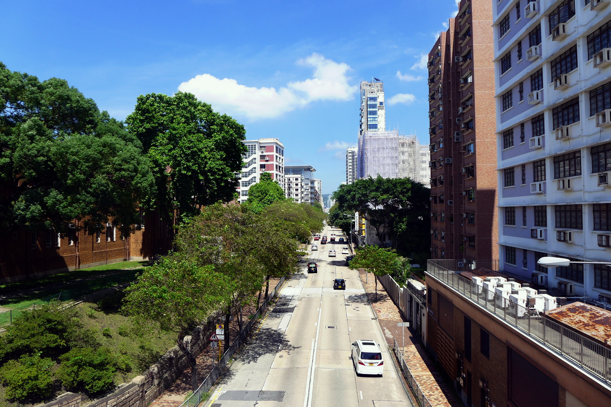 Boundary Street